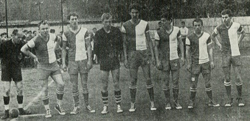 One of the best man handball team into the history of the local handball department